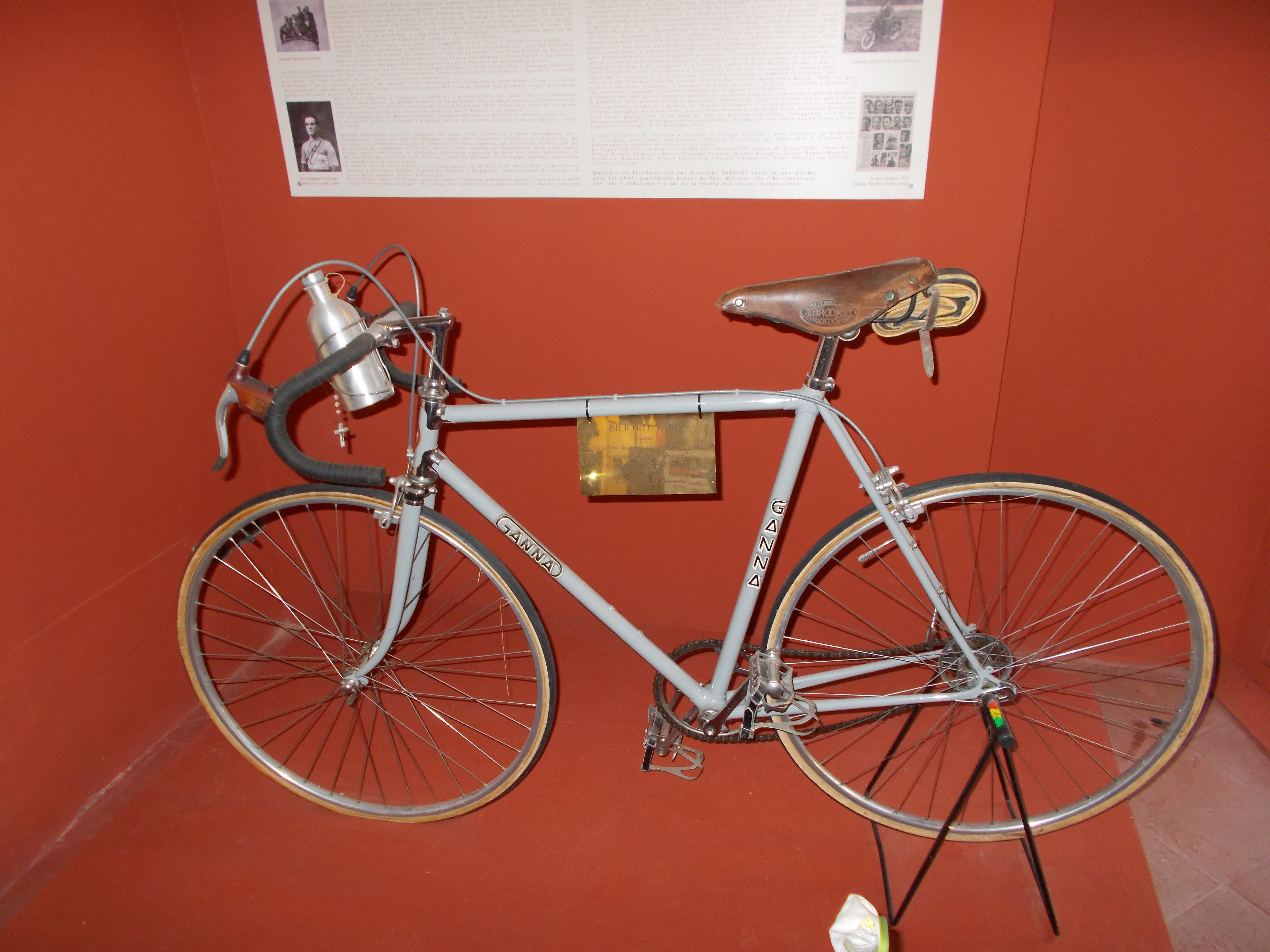 Ganna bicycle used by Giuseppe Sabatini, conserved in Peccioli (Pisa, Italy)